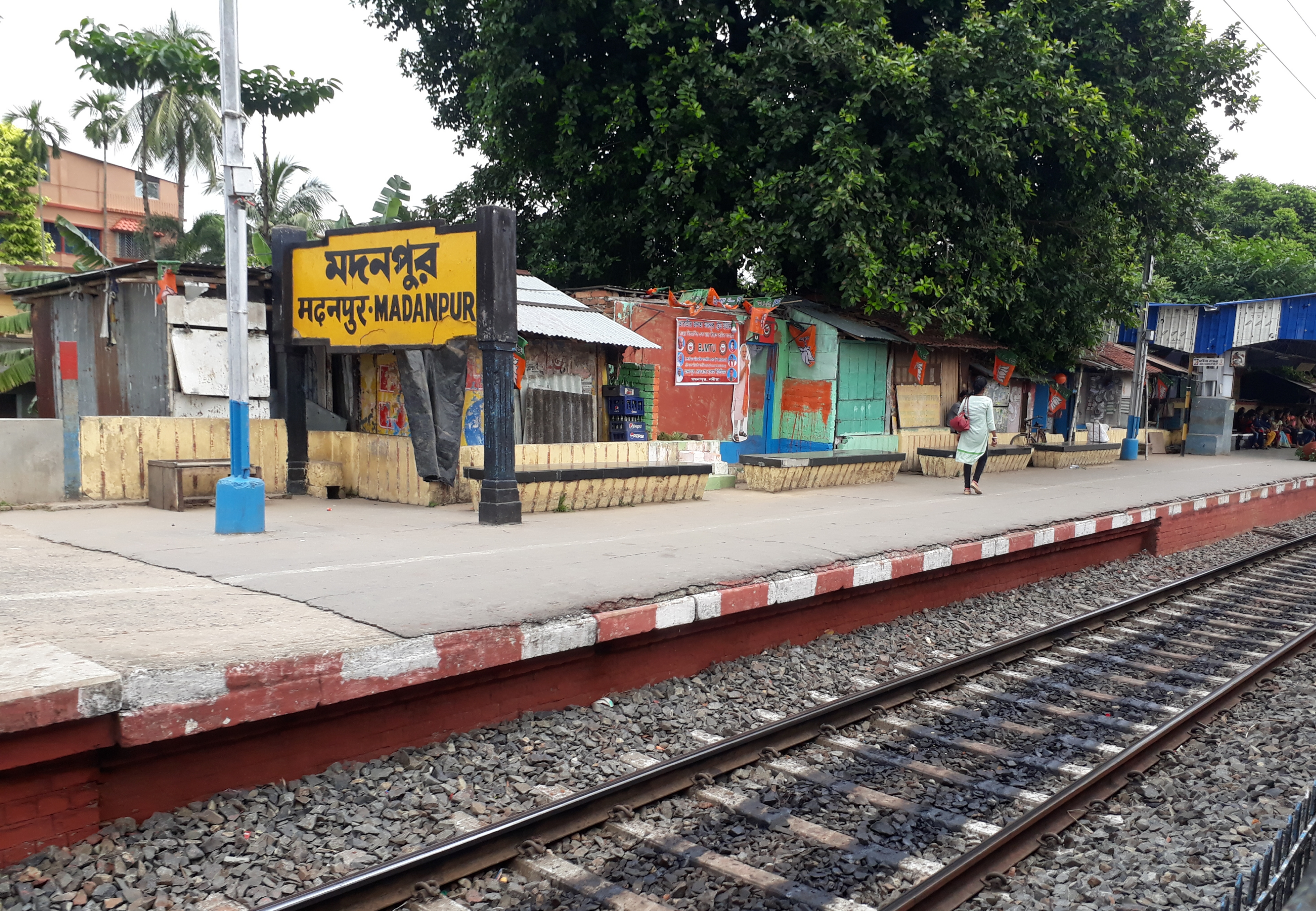 Madanpur railway station in Sealdah-Ranaghat main line, Sealdah Division, Nadia, West Bengal